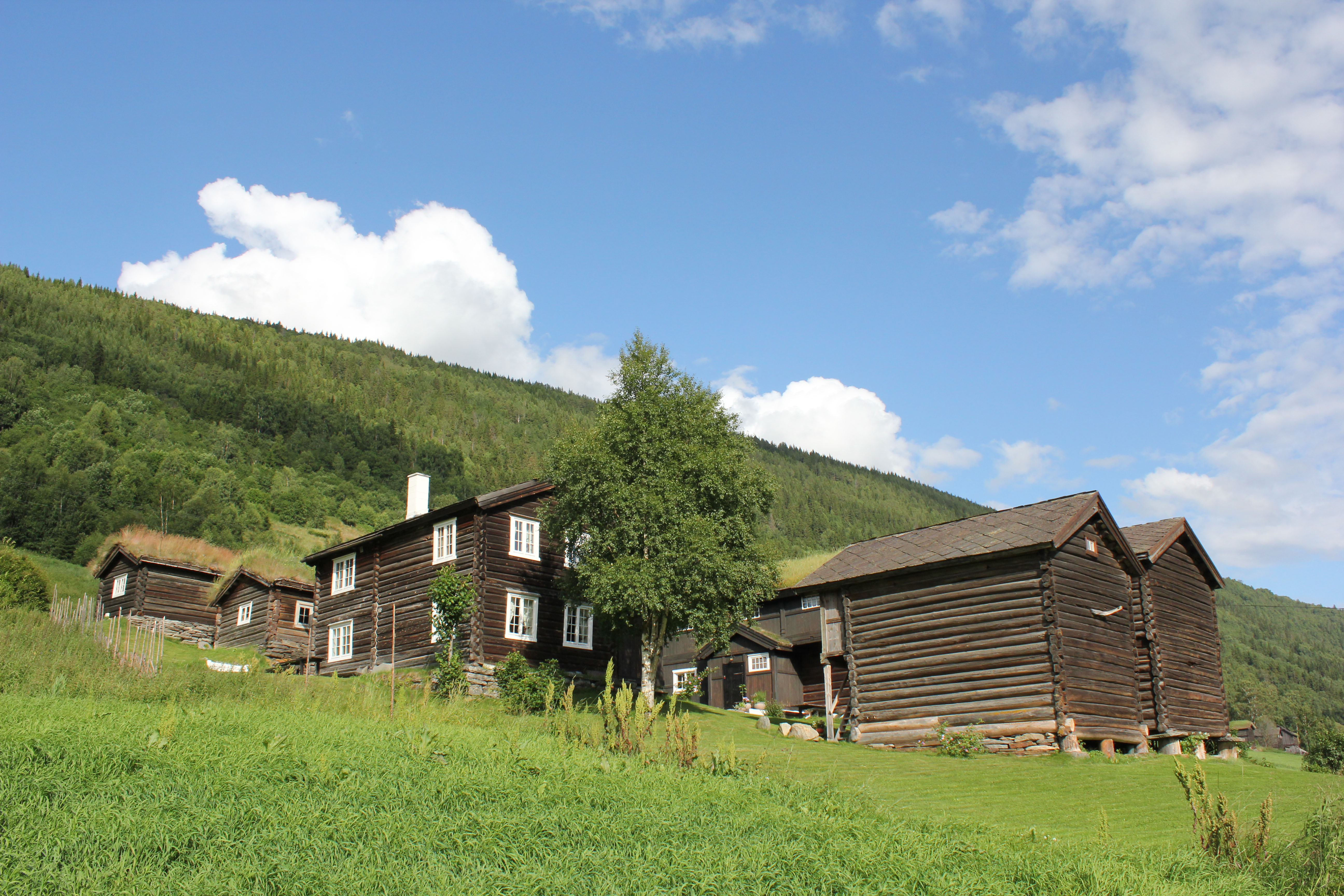 Nordre (North) Ekre, an old farm in Heidal, Norway Norsk (bokmål): Nordre Ekre, en av gårdene i det unike bygningsmiljøet i Heidal, Sel kommune